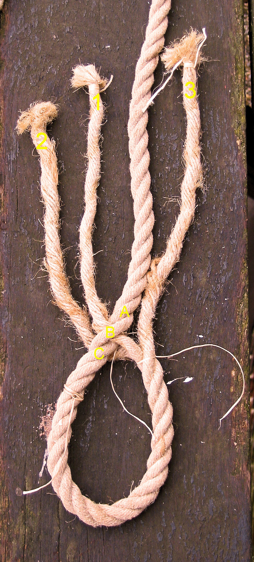 Eye splice first step